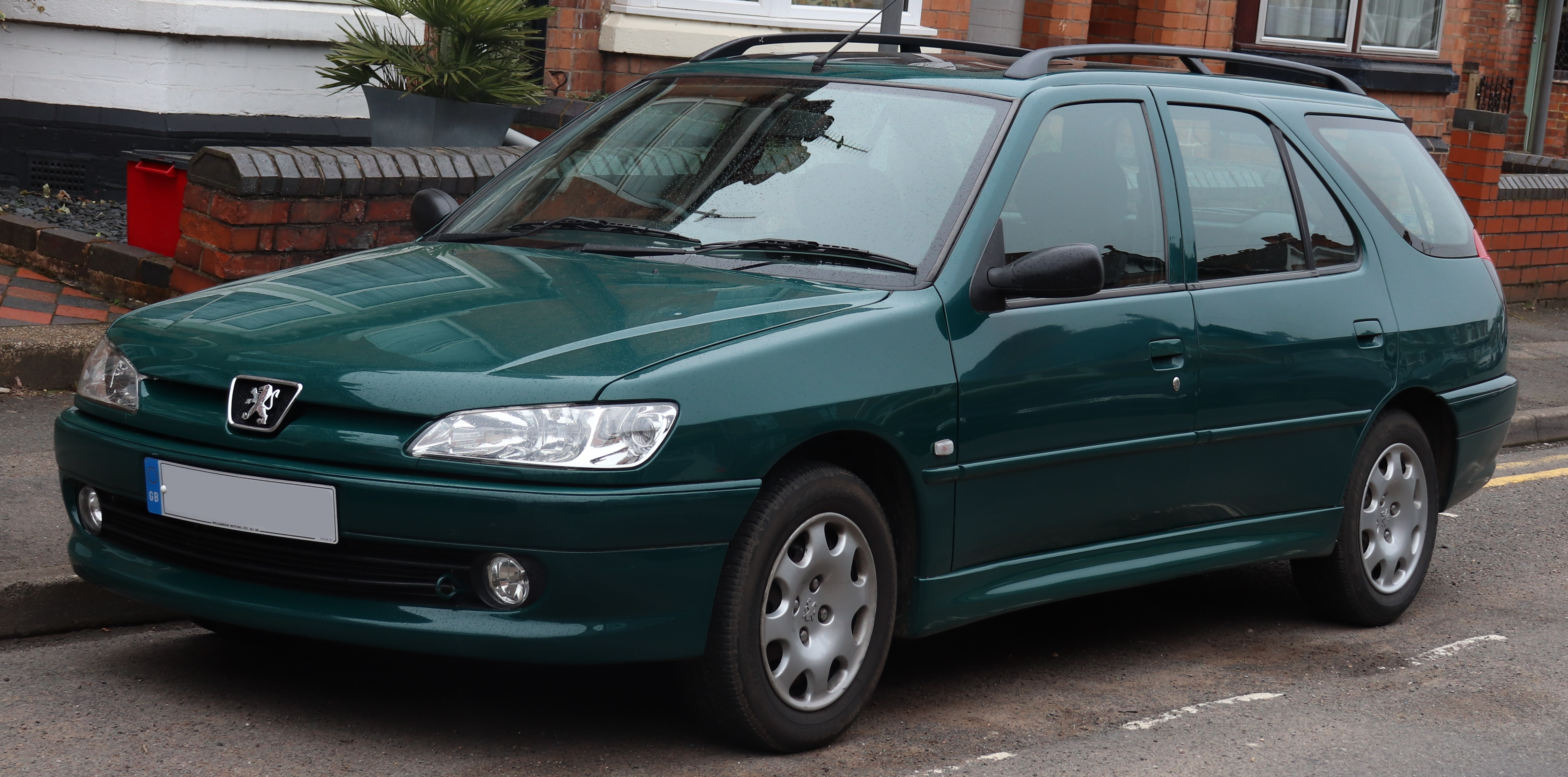 2000 Peugeot 306 L Estate 1.4 Front Taken in Warwick